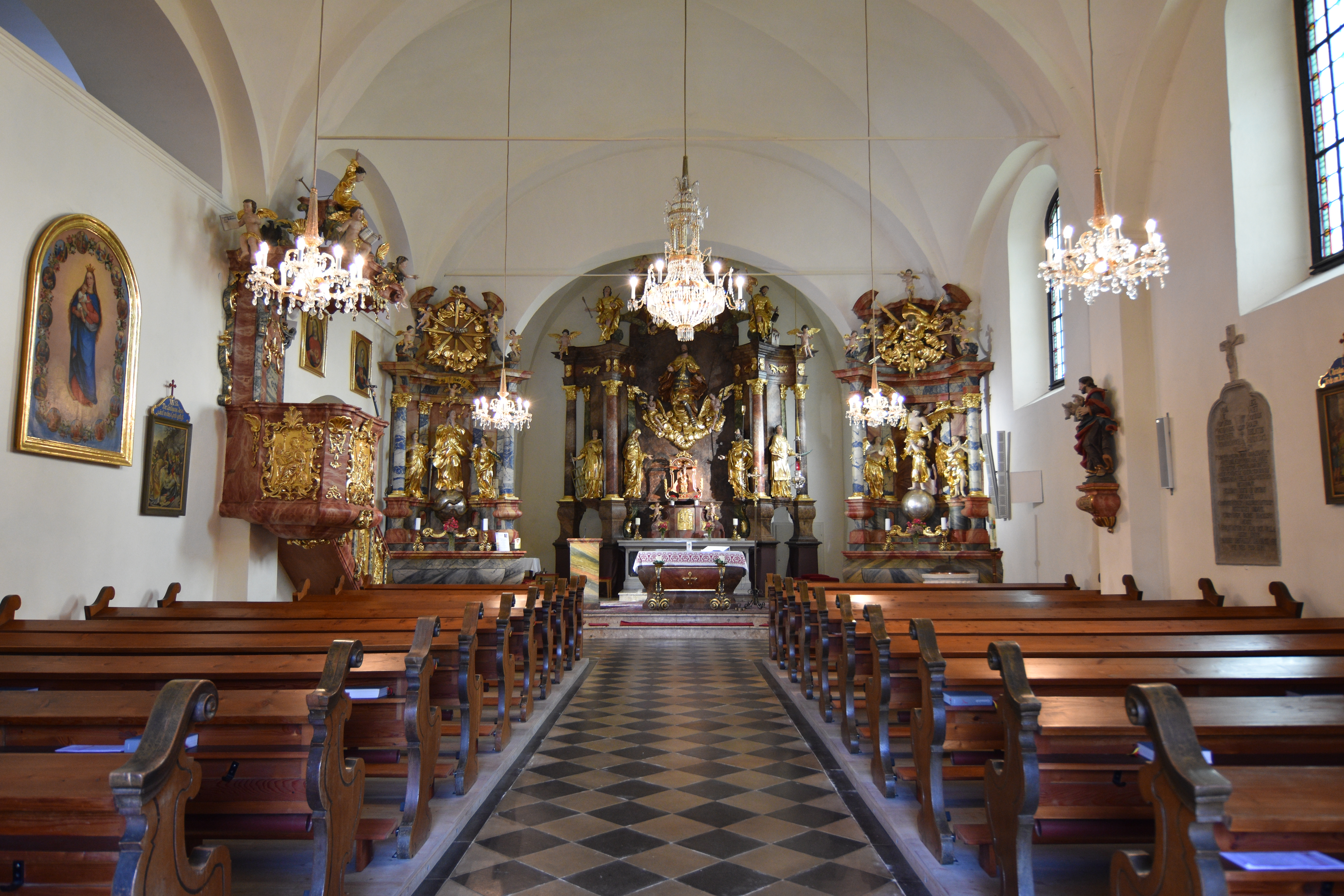 Church Kath. Pfarrkirche, hl. Georg - Interior